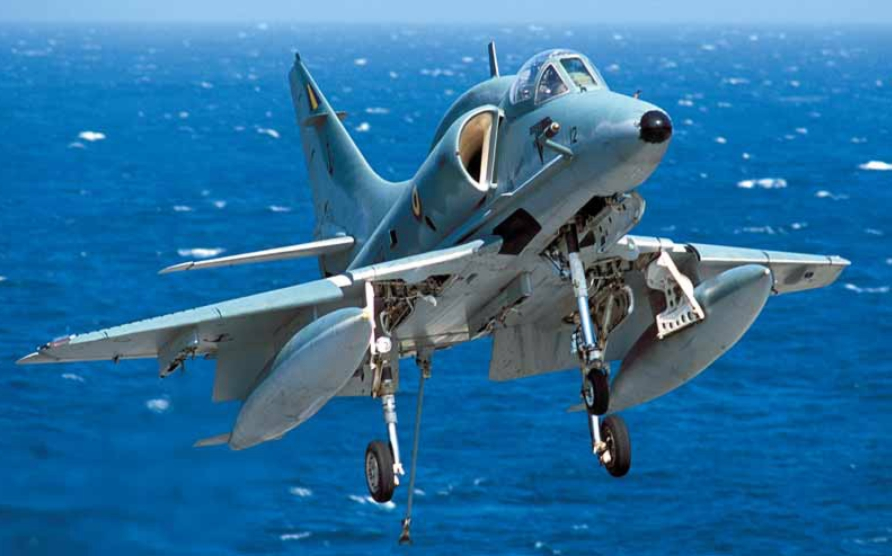 A Brazilian Navy McDonnell Douglas AF-1 Skyhawk (A-4KU) from fighter squadron VF-1 Falcõnes approaching the aircraft carrier Saõ Paulo (A12), in 2003.